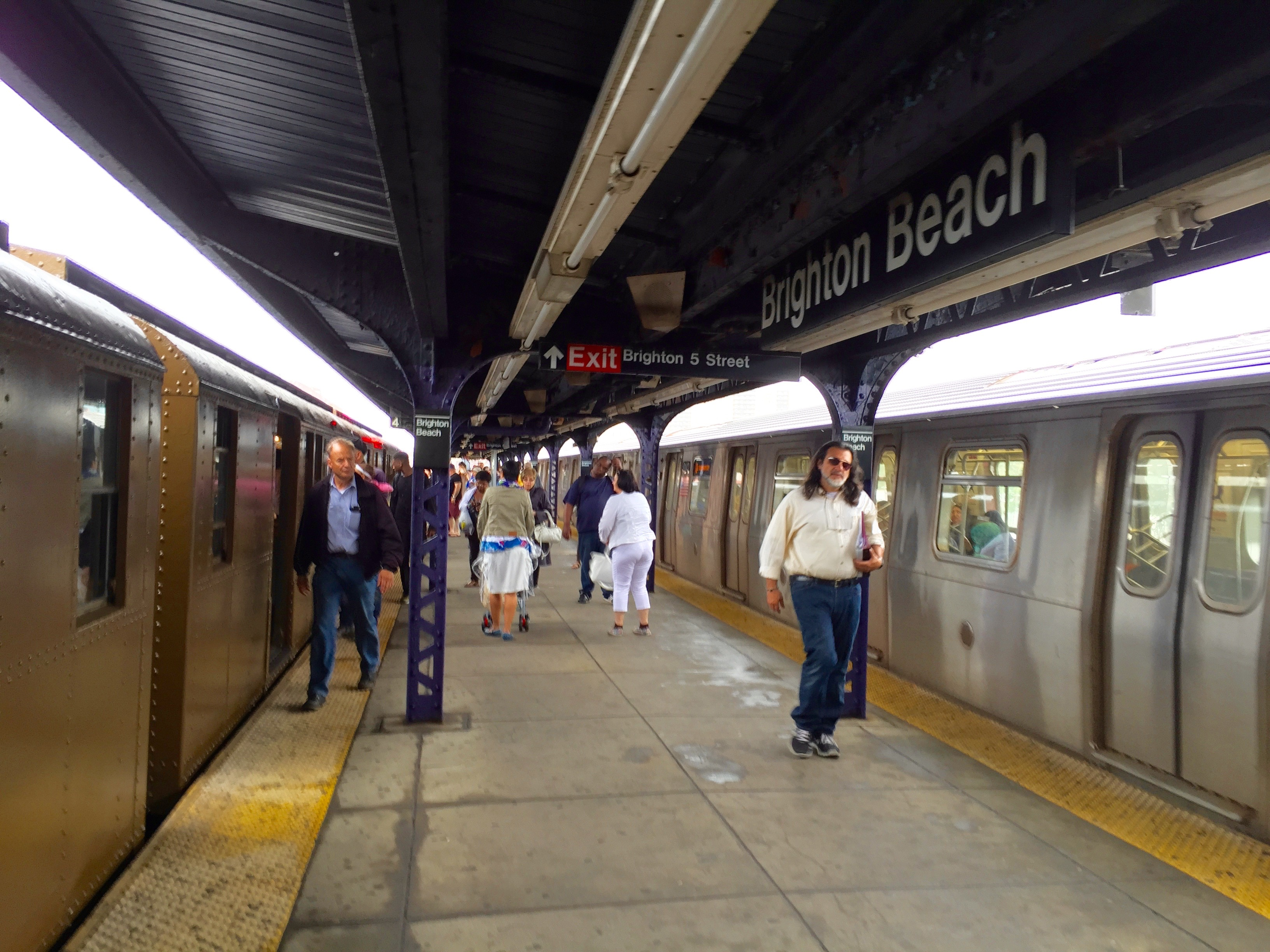 Coney Island bound platform at Brighton Beach on the B/Q. Local track (Q) on the right, express track (with a museum train) on the left.